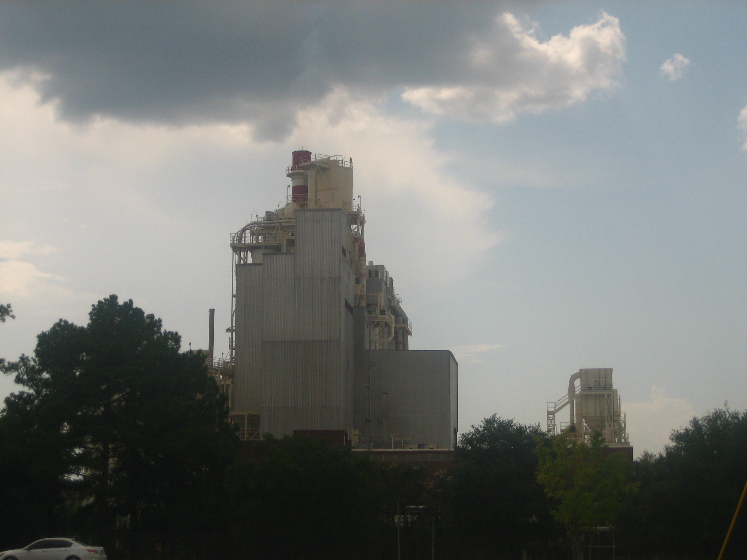 Pineville, Louisiana. I took photo on Aug. 1, 2008.Billy Hathorn (talk) 04:51, 15 August 2008 (UTC)